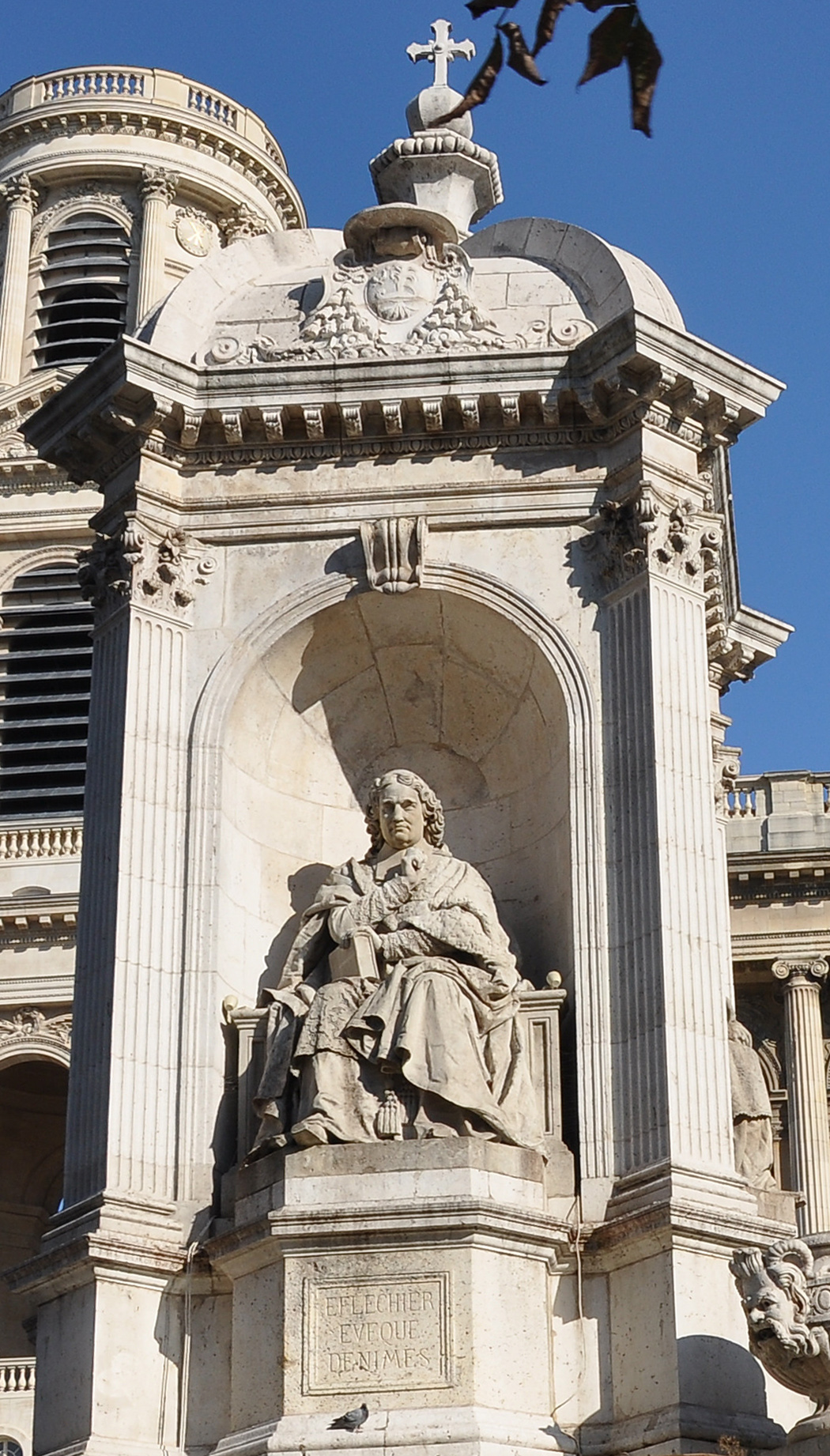 Fléchier by Louis Desprez. Fountain of the Sacred Orators, Place Saint-Sulpice, Paris (6th arrondissement), France.